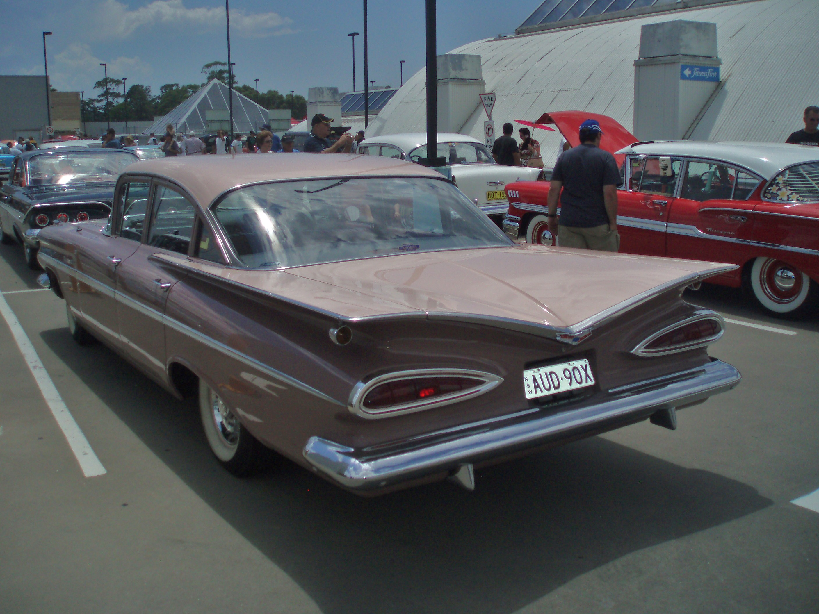 1959 Chevrolet Bel Air sedan. Australian assembled. Taken at the 2010 New South Wales All American Day, held at Castle Towers Shopping Centre, Castle Hill, Sydney.